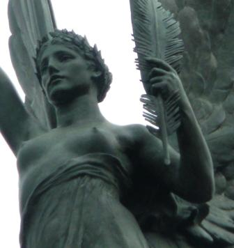 Close up of Newbury Abbot Trent sculpture on New Barnet War Memorial